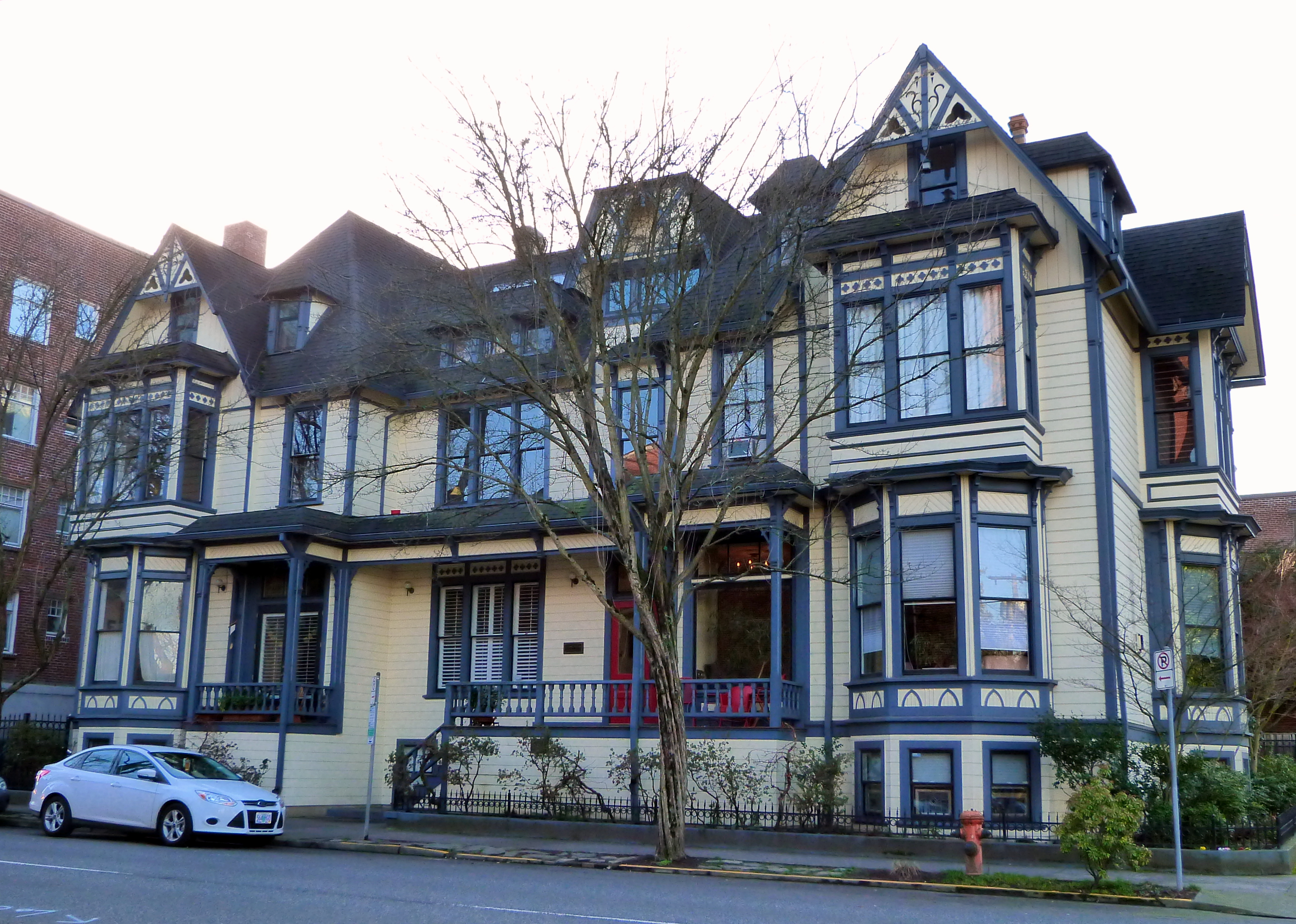 The historic, Queen Anne style George H. Williams Townhouses (built ca. 1883), located at 133 Northwest 18th Avenue in Portland, Oregon, United States, are listed on the US National Register of Historic Places. They are additionally listed as a contributing resource in the National Register-listed Alphabet Historic District.